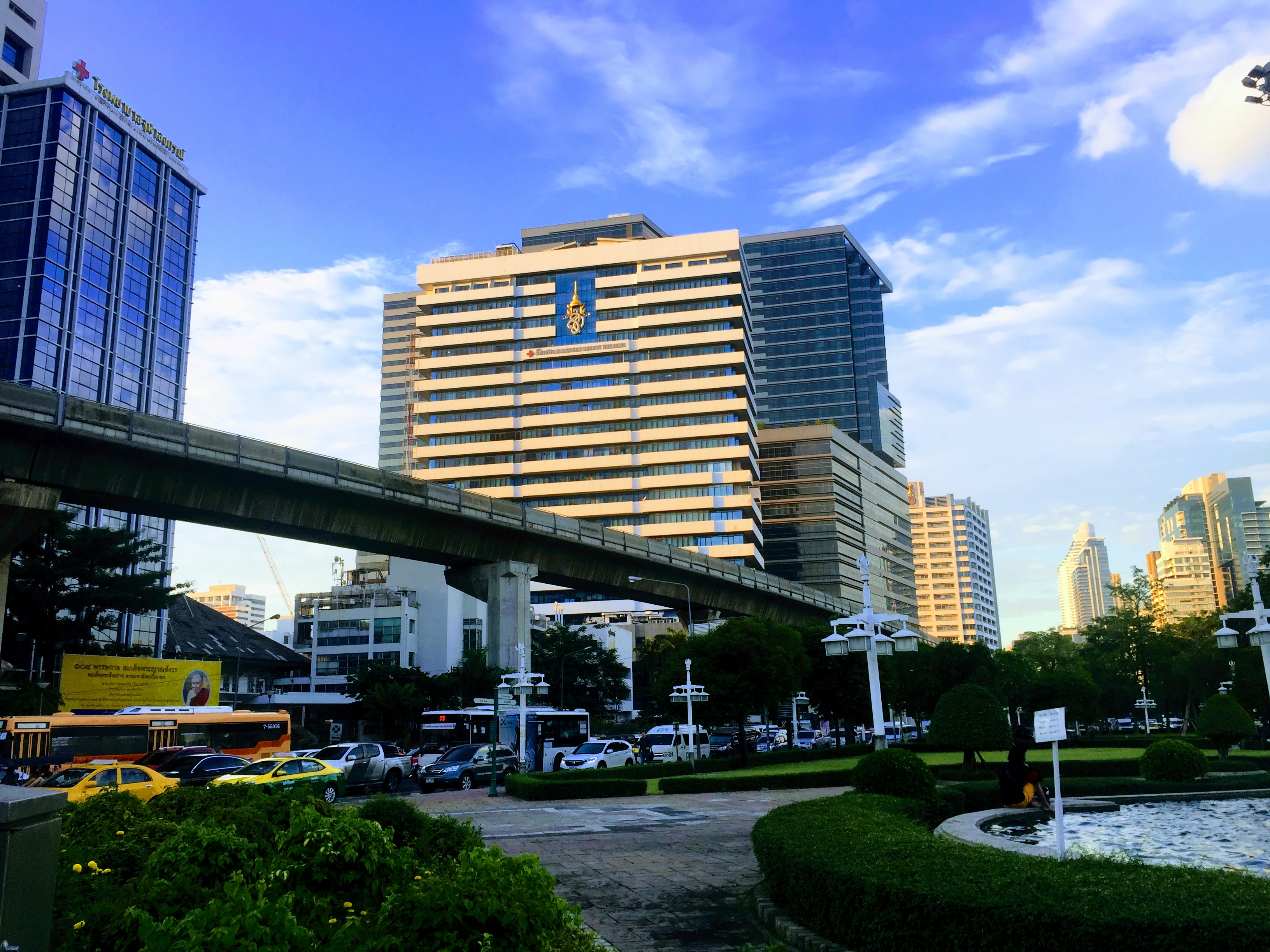 King Chulalongkorn Memorial Hospital in the evening in October 20th, 2017, 6 day before The Royal Cremation of His Majesty King Bhumibol Adulyadej.